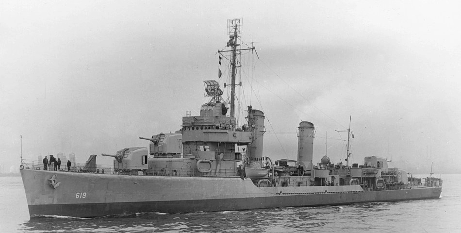 The U.S. Navy destroyer USS Edwards (DD-619) off the New York Naval Shipyard on 8 November 1942.